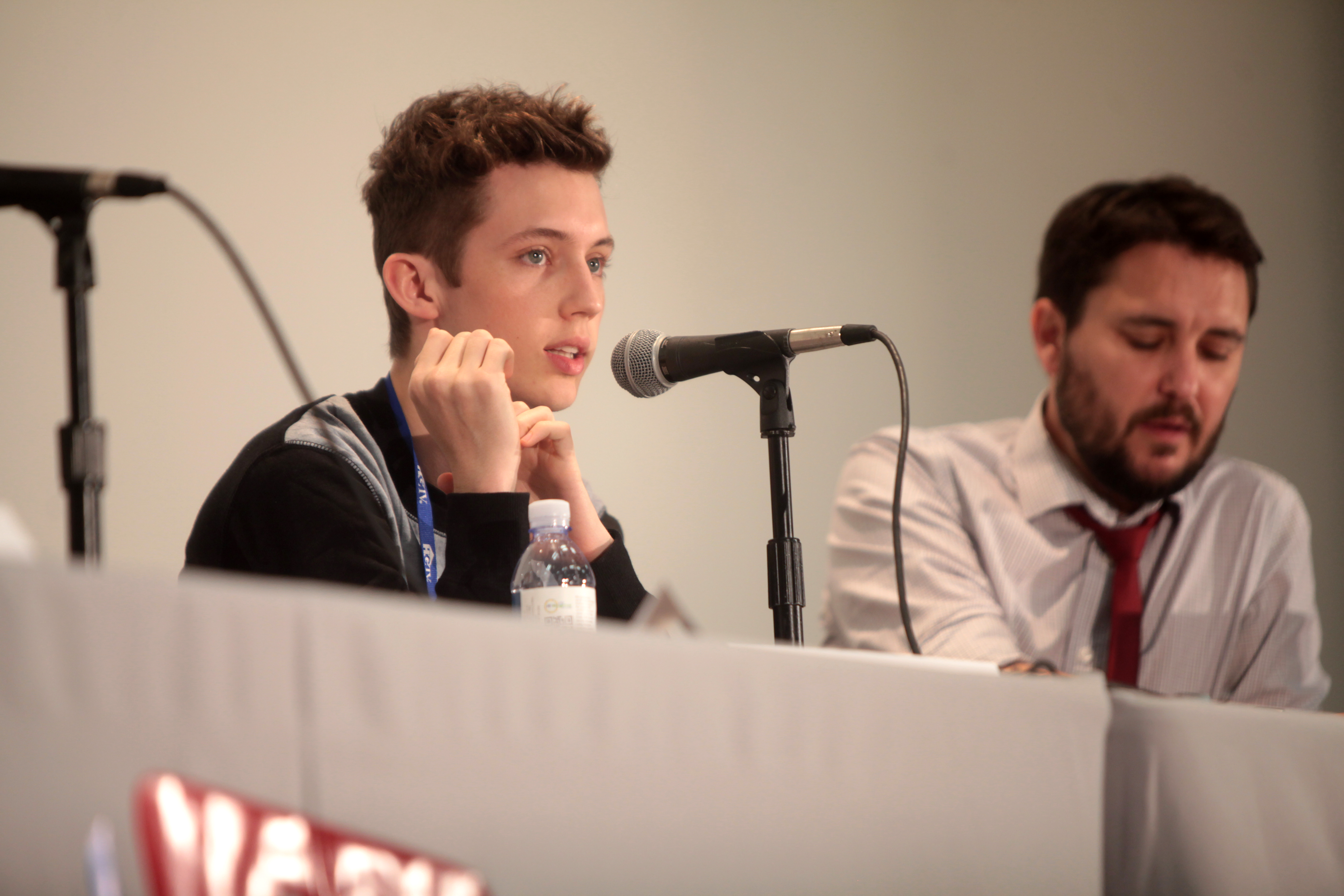 Troye Sivan and Wil Wheaton speaking at the 2014 VidCon at the Anaheim Convention Center in Anaheim, California.